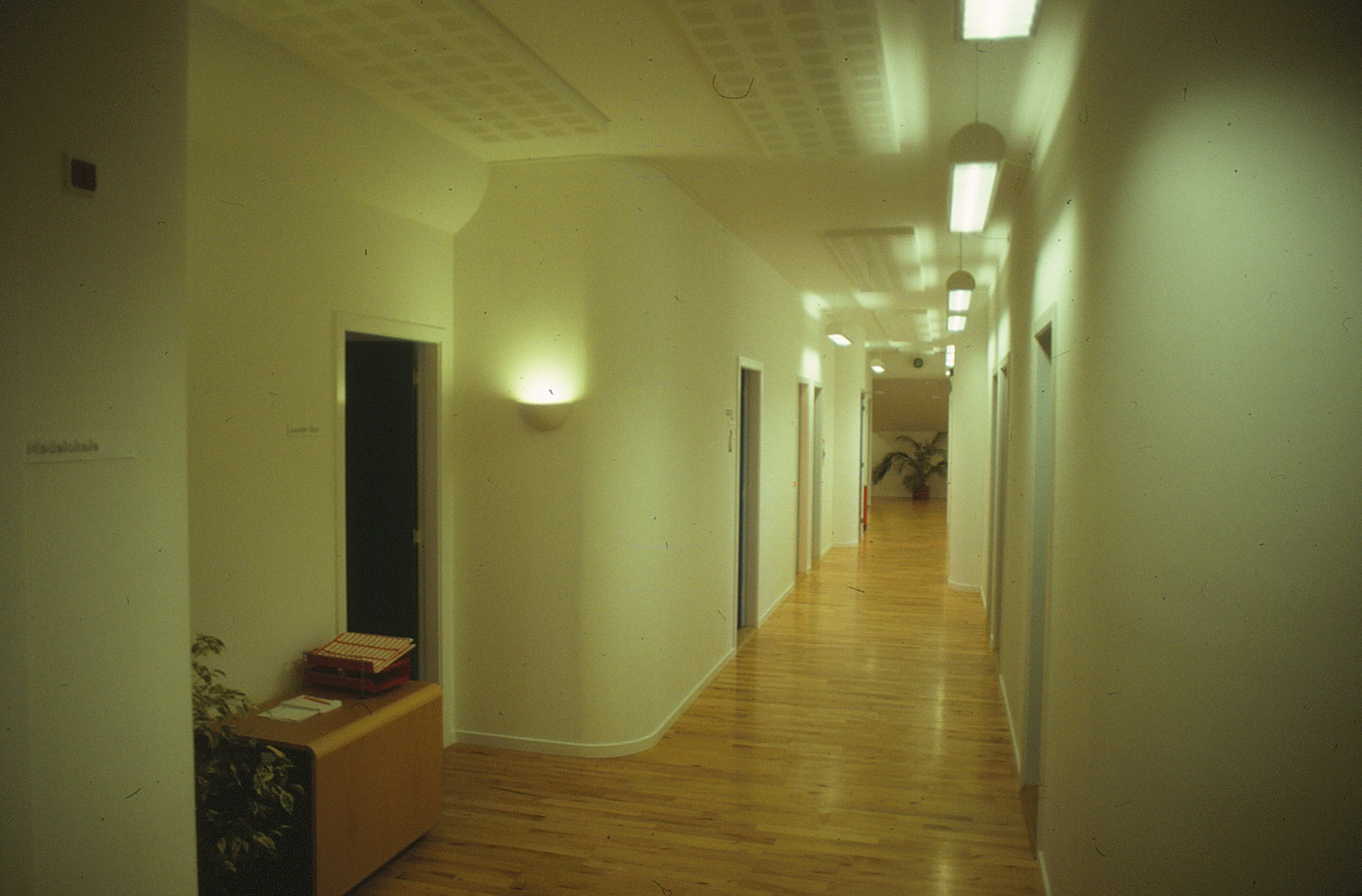 A corridor in the offices of DDC International A/S, a software development firm located in the converted Dansk Cardin and Textil Fabrik building in Lyngby, Denmark. The image shows Danish office design elements.